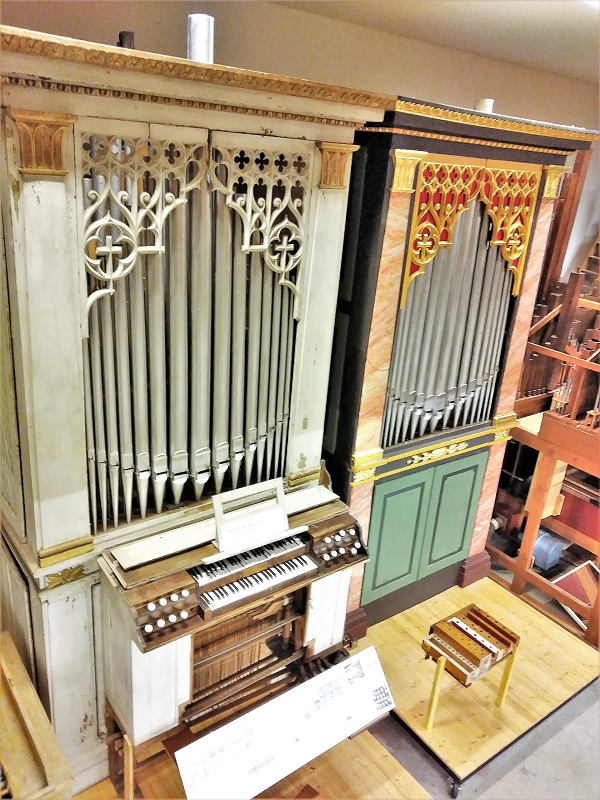 Orgel- und Spieltischsammlung im Untergeschoss der Zollingerhalle (Orgelzentrum Valley)